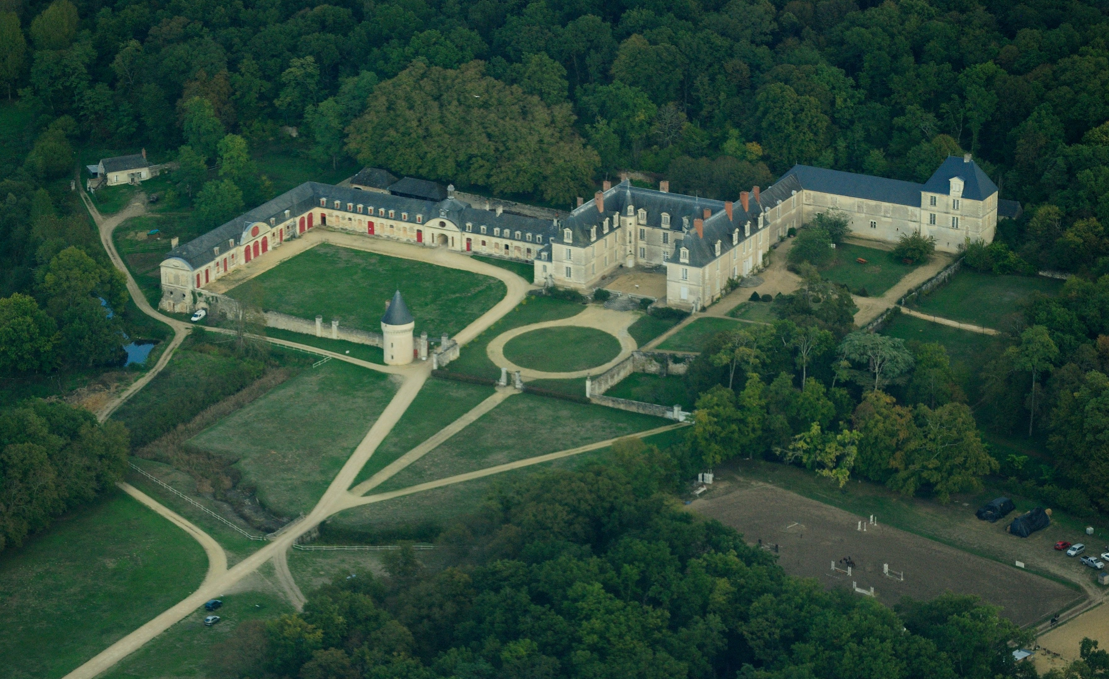 Aerial view of Gizeux castle (Indre-et-Loire department, France). Nikon D60 f=75mm f/5.6 at 1/500s ISO 400. Processed using Nikon ViewNX 1.3.0 and GIMP 2.6.6.